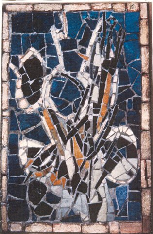 Edmond Boissonnet